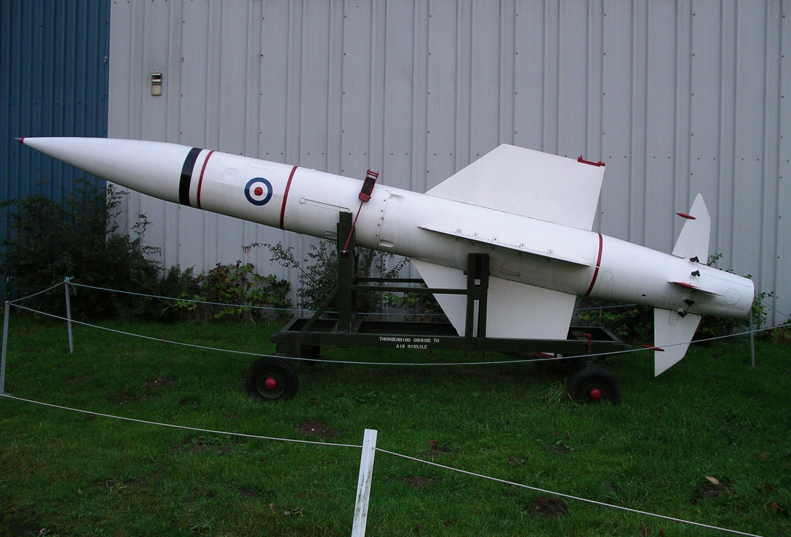 A thunderbird ground to air missile (side view), on show at the Midland Air Museum, Warwickshire, England.